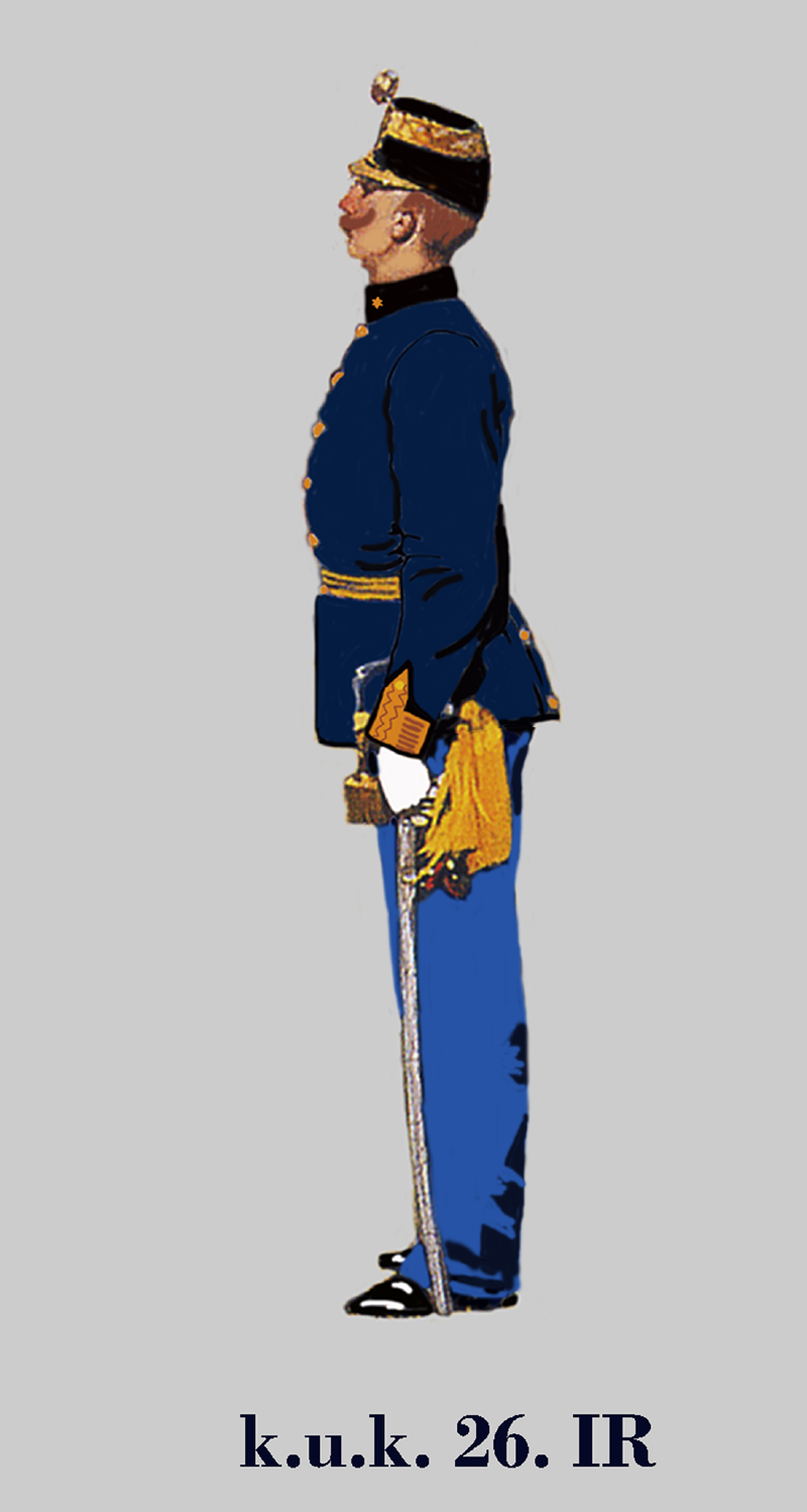 Lieutenant of the Austria-Hungarian (k.u.k.). 26th hungarian Infantry Regiment in Paradedress 1914.